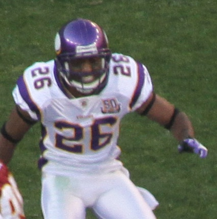 Donovan McNabb, quarterback for Washington Redskins, drops back to pass the ball.